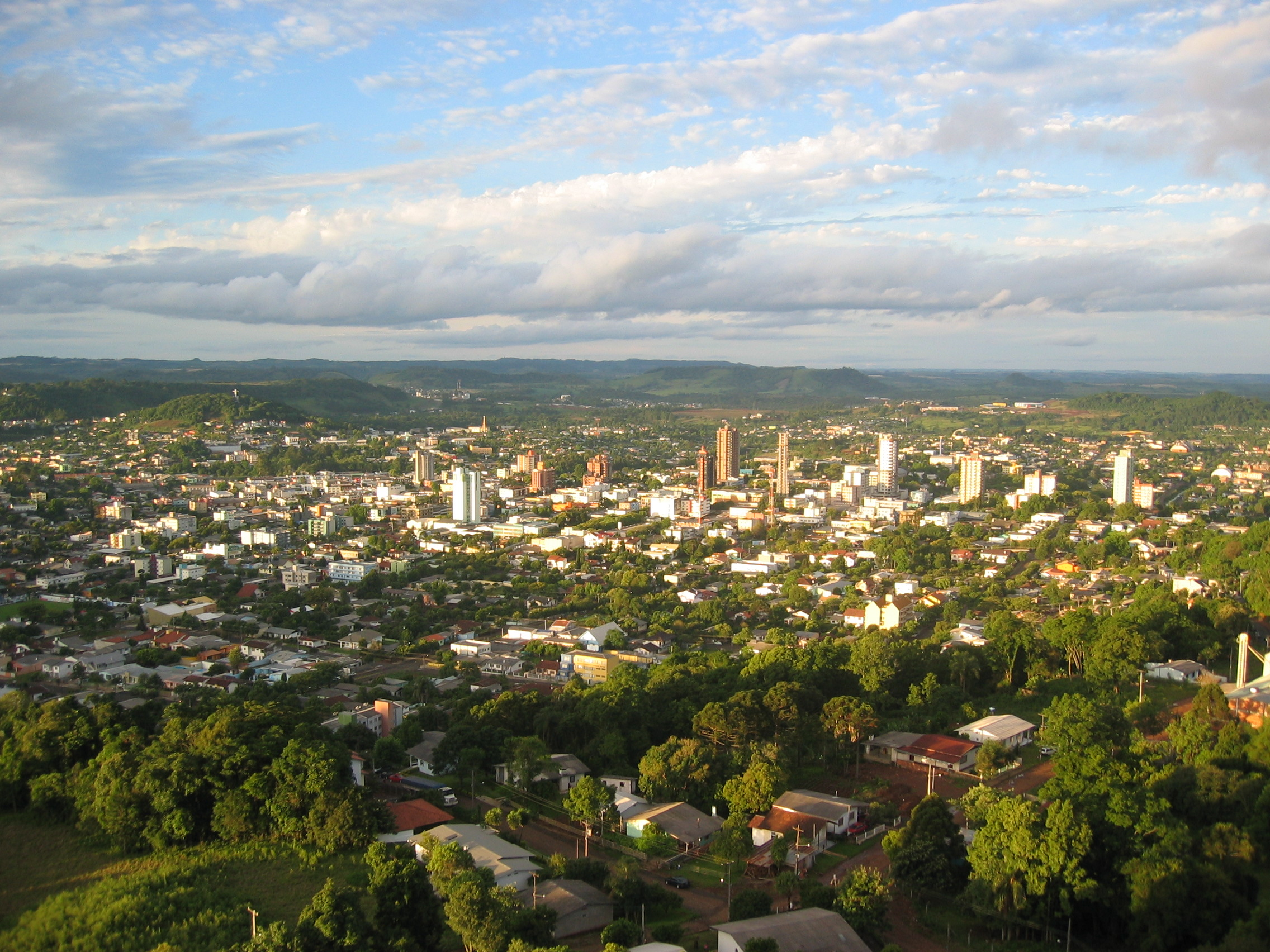 O por-do-sol caindo sobre a cidade. Foto tirada da torre. (Sunset over the city. Taken from the tower.)